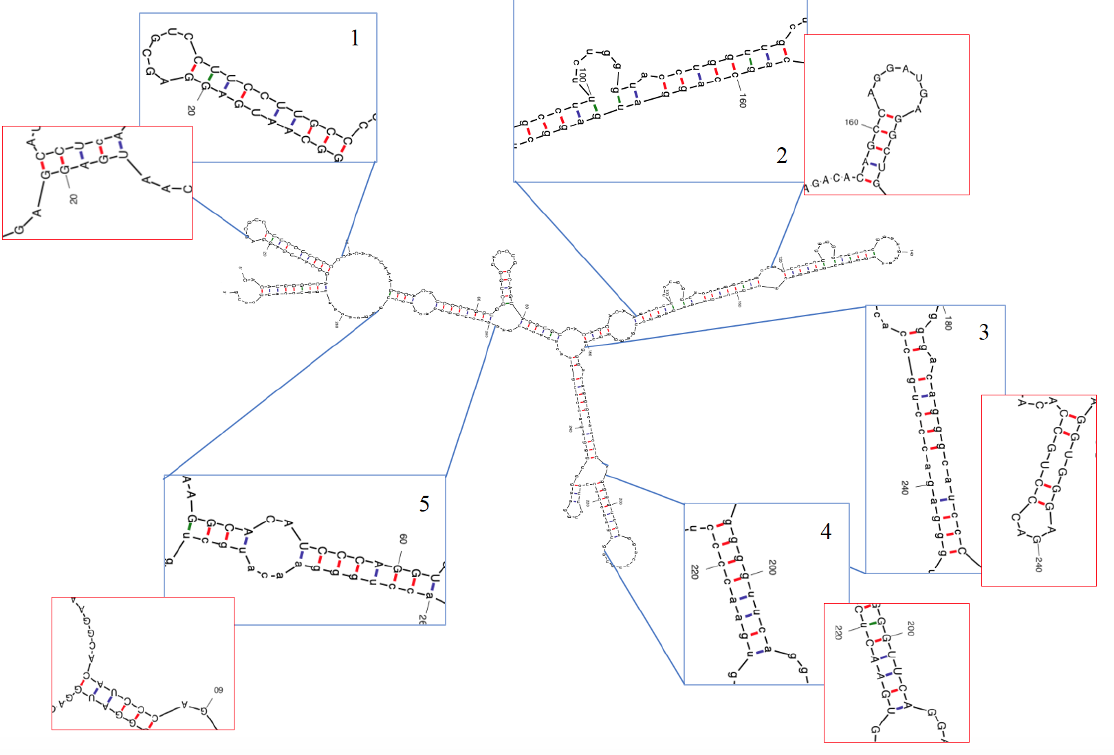 A folded 3’ UTR conformation of C9orf50 was generated using the 3’ UTR put into the mFold RNA folding form. Five areas are enlarged to show base pairing of low energy. The total dG is -127.5 kcal/mol. Red boxes show the area of folding in the gorilla 3’UTR. Area 4 has the highest conserved structured.